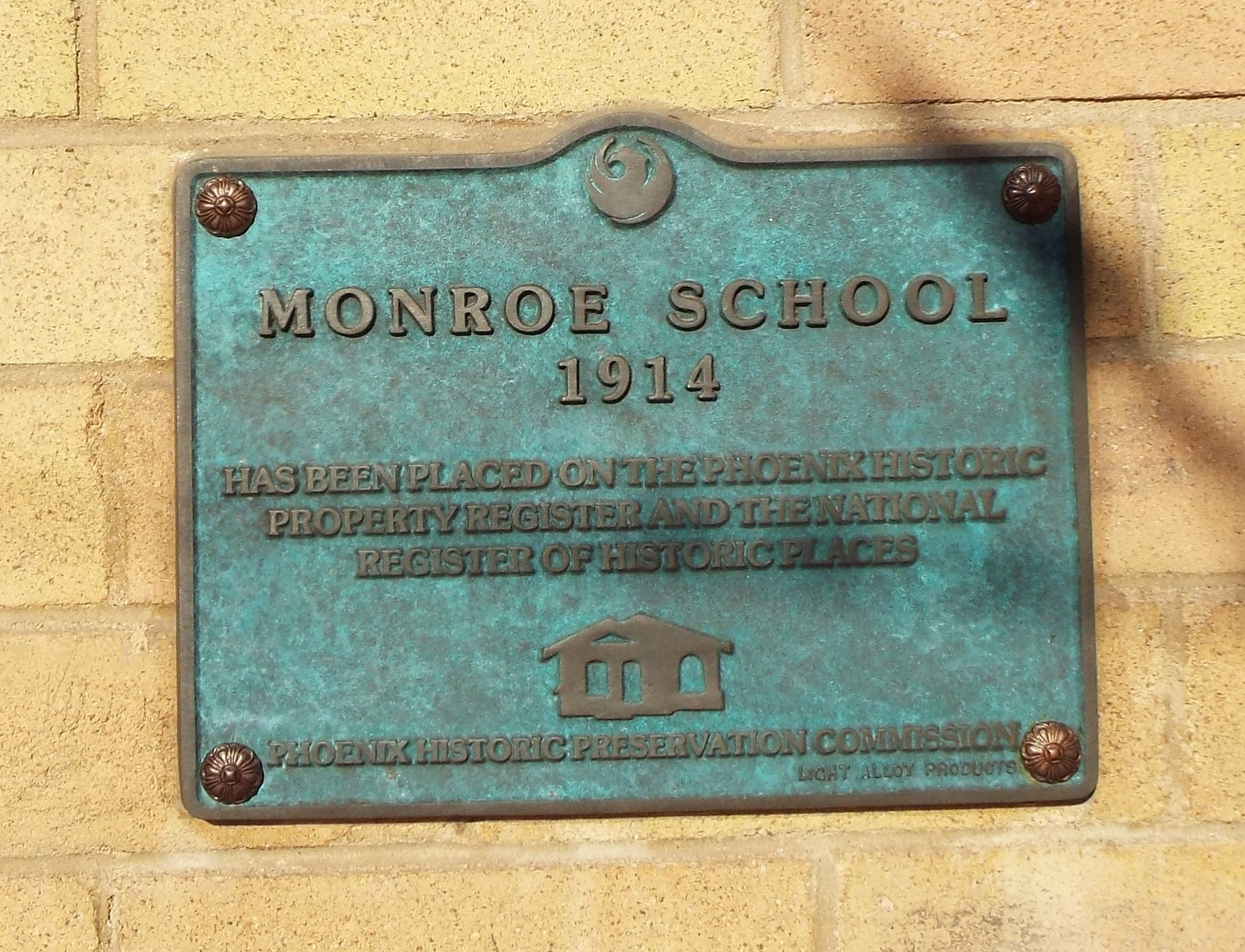 Historic NRHP Monroe School plaque in Phoenix, Az